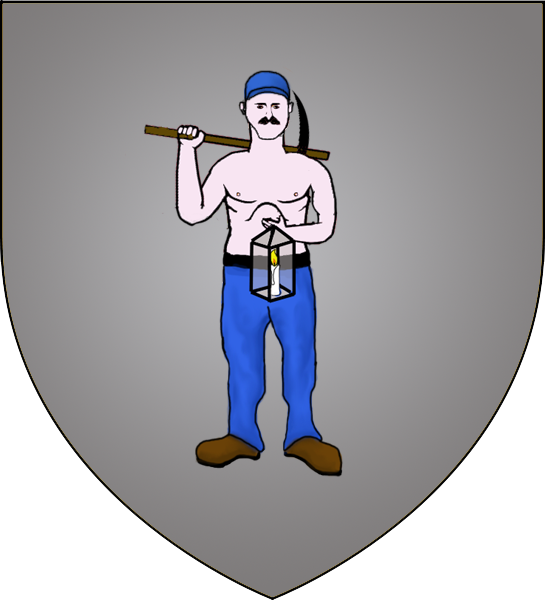 Coat of arms of the municipality of Rumelange, Luxembourg